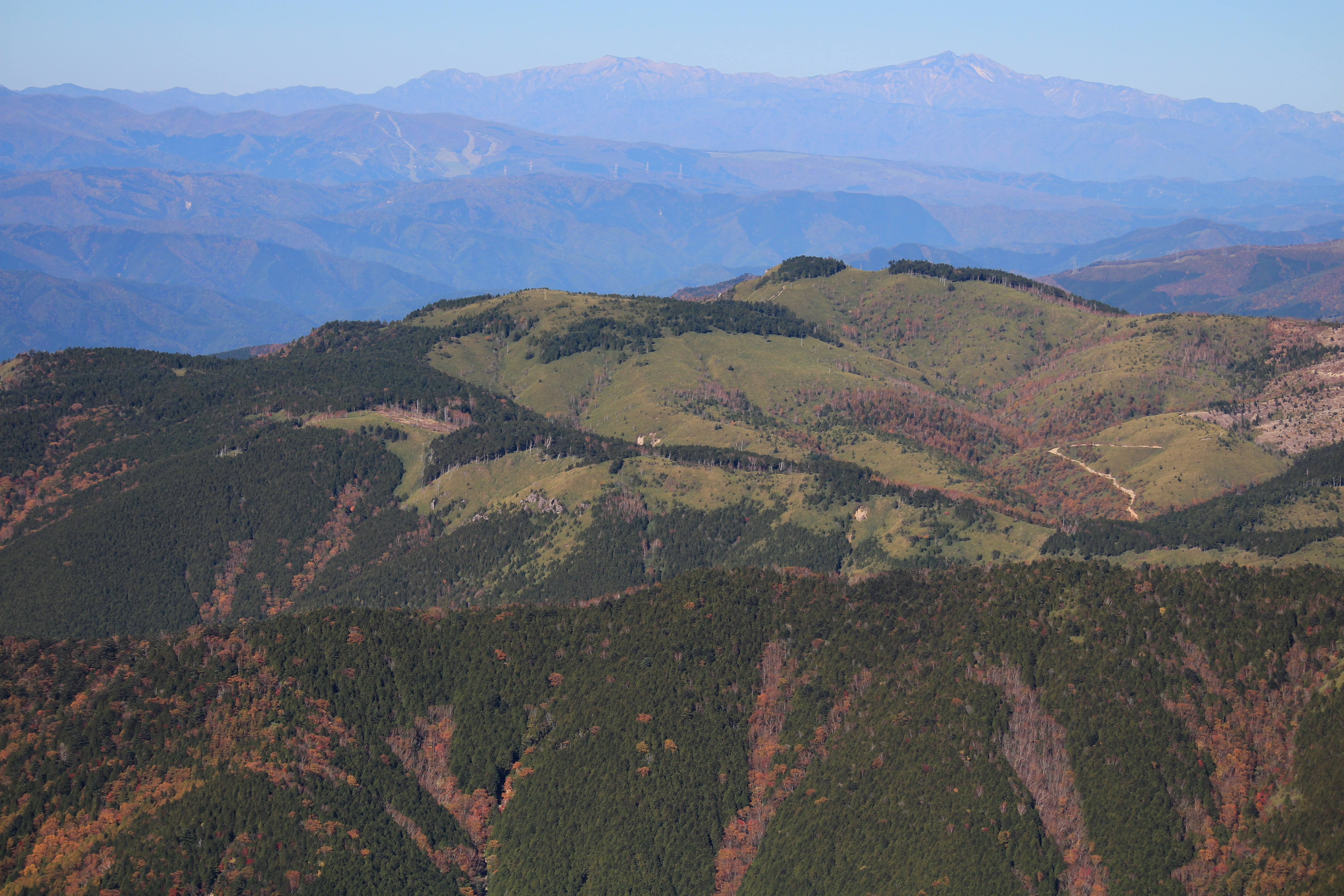 Mount Shirakusa seen from Kabutoiwa on Mount Kohide, in Ōtaki, Nagano prefecture and Gero, Gifu prefecture, Japan.